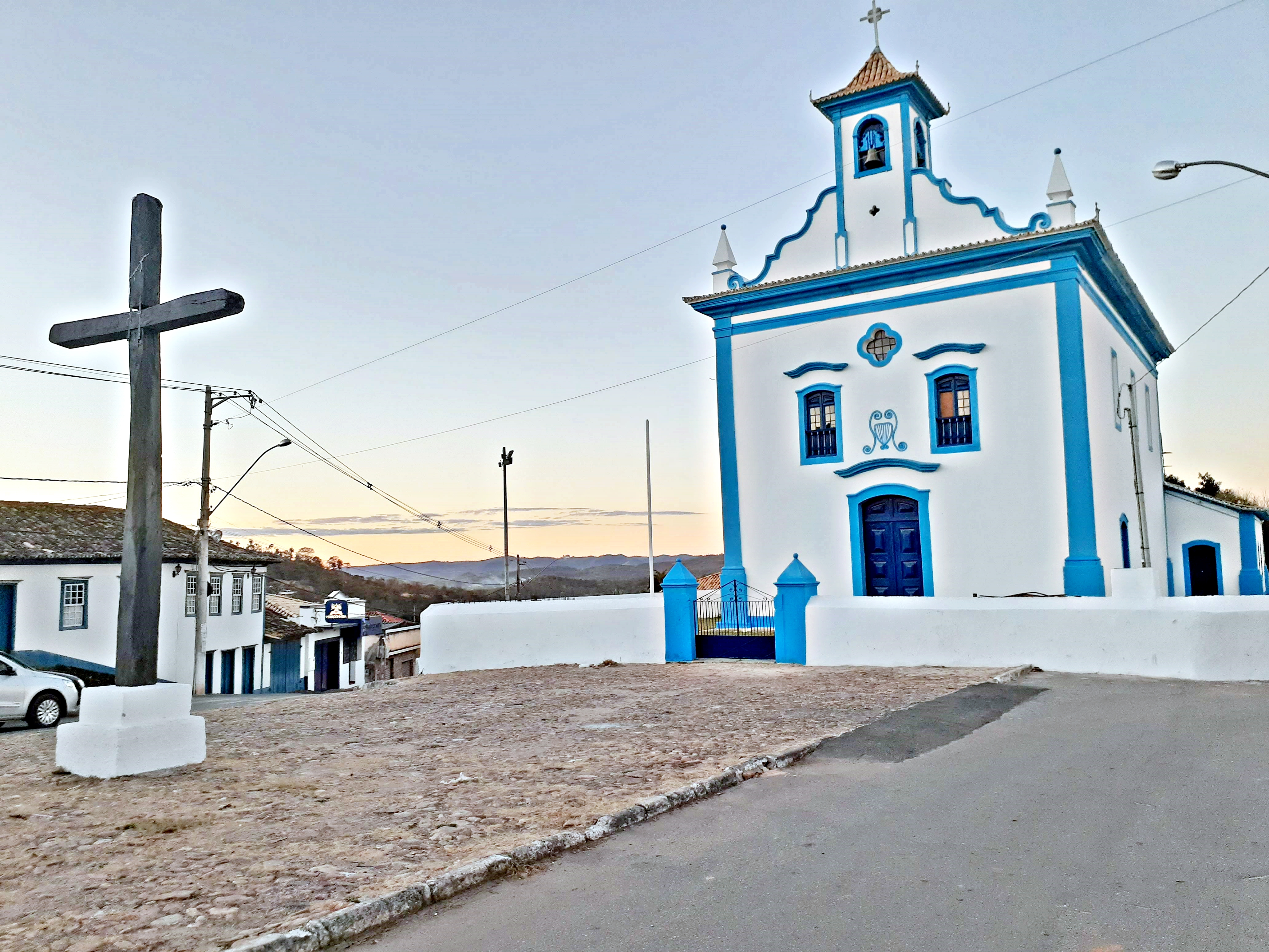 Nossa Senhora da Assunção's Church in Ravena, Sabará, Minas Gerais, Brazil